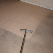 Carpet Cleaning Before and After Image